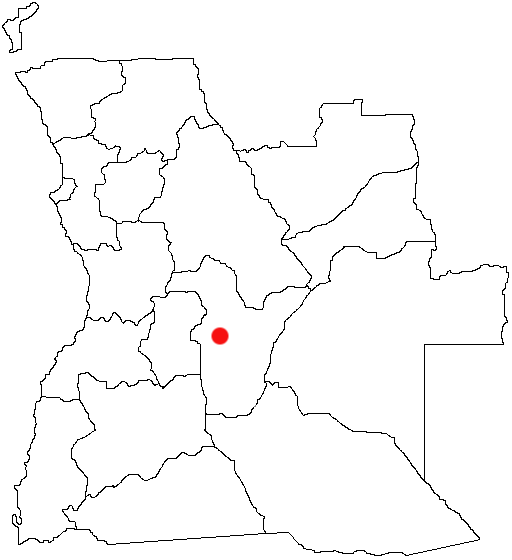 Kuito, Angola Location Map; created with the GIMP. Made by User:Acntx.